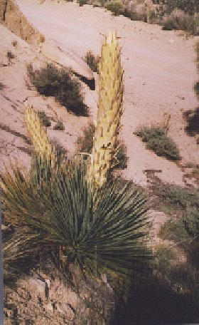 An endemic California species of Nolina, called Parry's Beargrass, of the Mojave Desert.